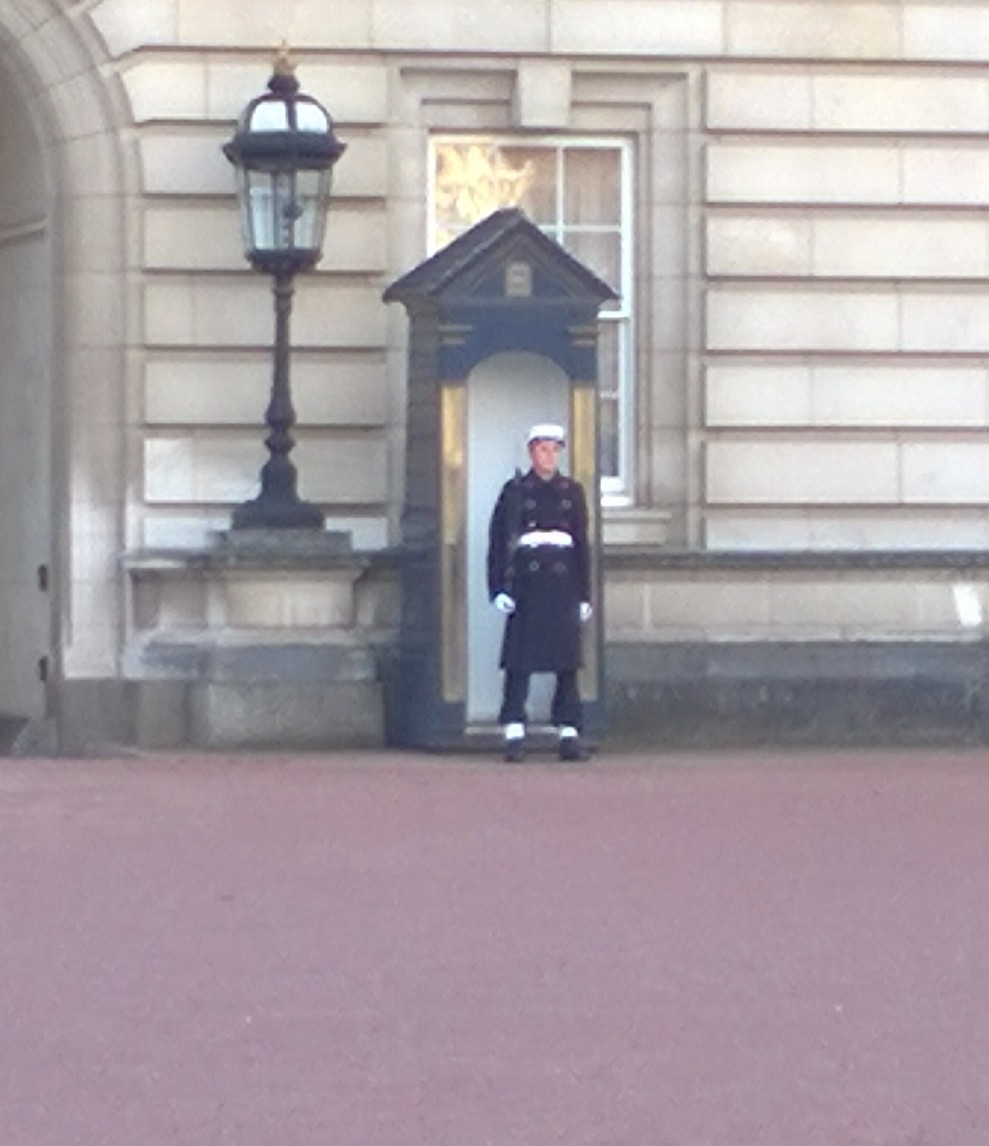 A sentry of the Royal Navy on guard at Buckingham Palace